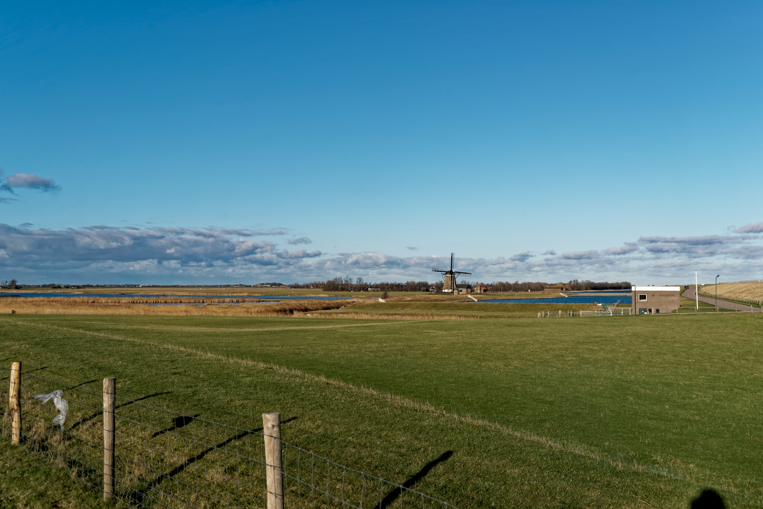 Texel - Loswal - View North towards Molen Het Noorden